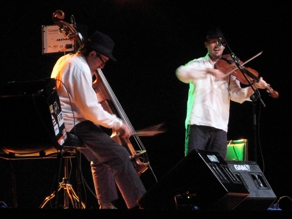 Kroke at concert in Centro Cultural Cajastur in Mieres, Spain